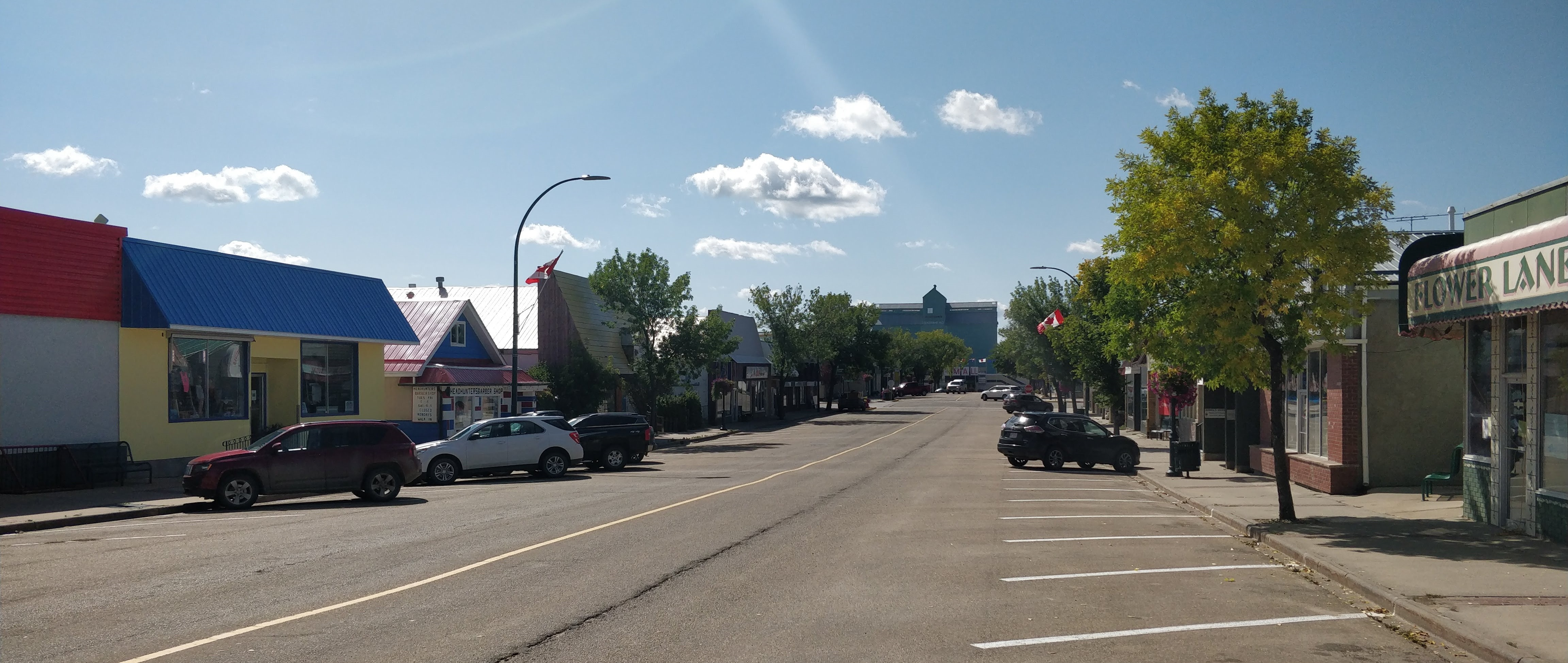 Main street of Barrhead, Alberta. Nearly deserted on Labour Day.